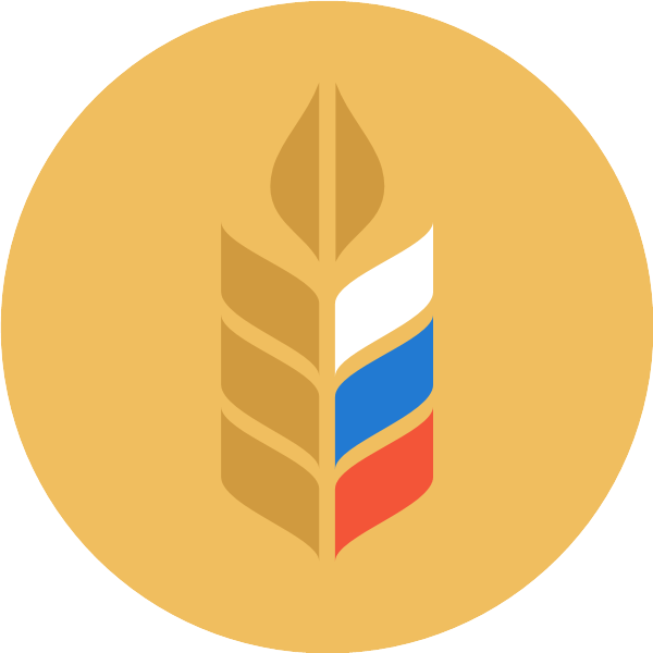 Russian Ministry of Agriculture logo